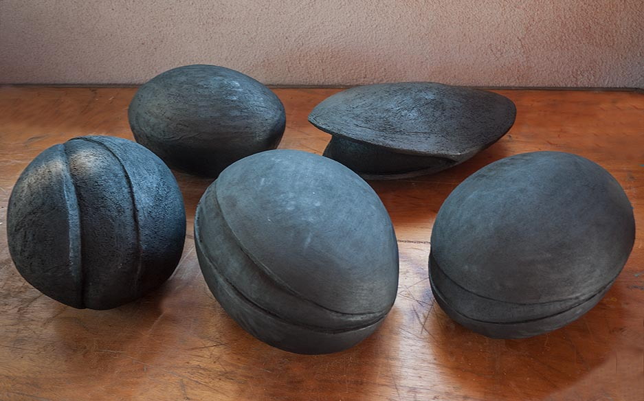 Ceramics by Maria Carmen Riu De Martín